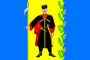 Flag of the Vyselkovskoe rural settlement, Krasnodar krai, Russia